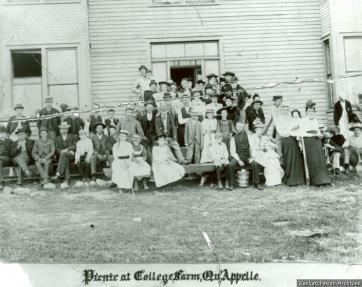 Photo of a picnic at St John's [Anglican] College Farm, Qu'Appelle, Assiniboia, North-West Territories, 1894.